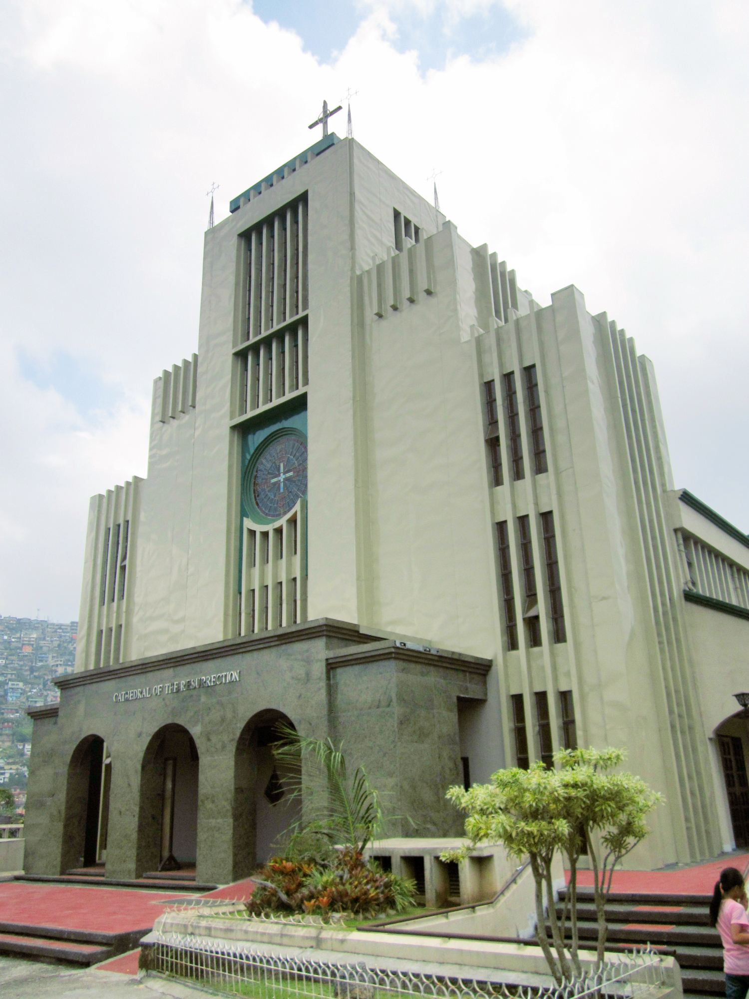 The art deco structure of the Cathedral of the Resurrection